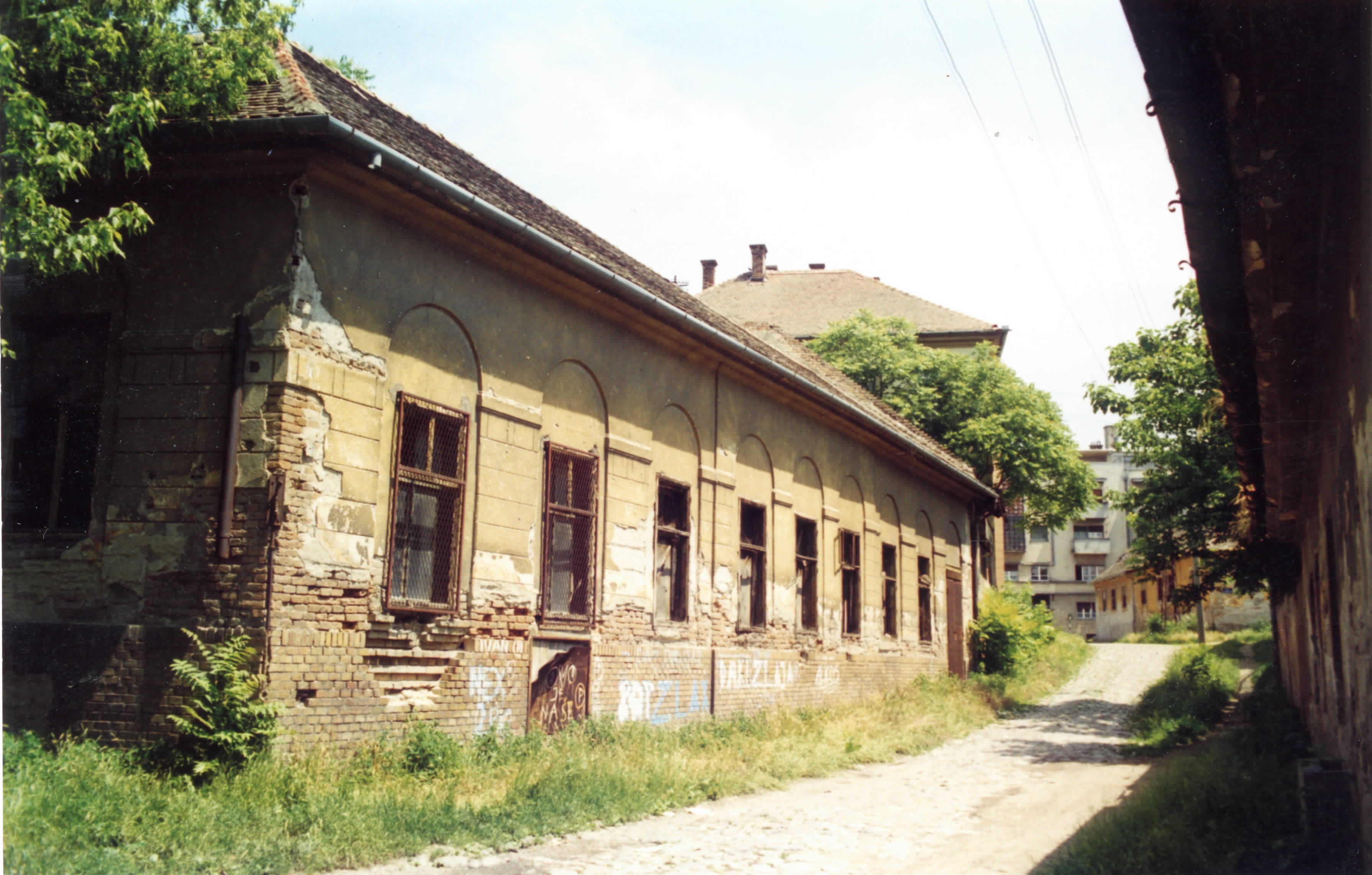 Printing office in Pančevo, remains of the building